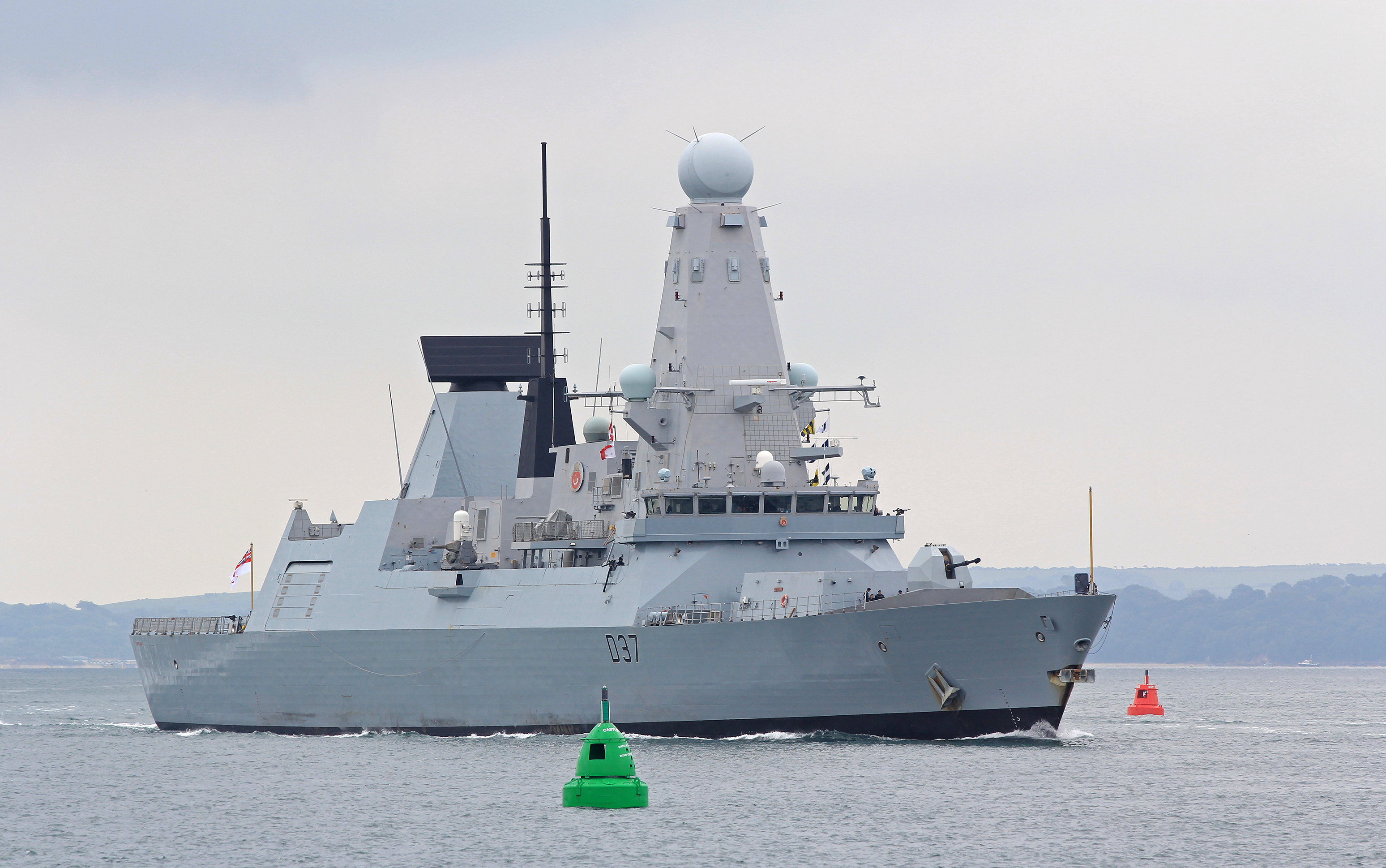 Type 45 air-defence destroyer HMS Duncan (D37) photographed by Brian Burnell inbound to Portsmouth Naval Base at 09.38 GMT on 17 June 2016.